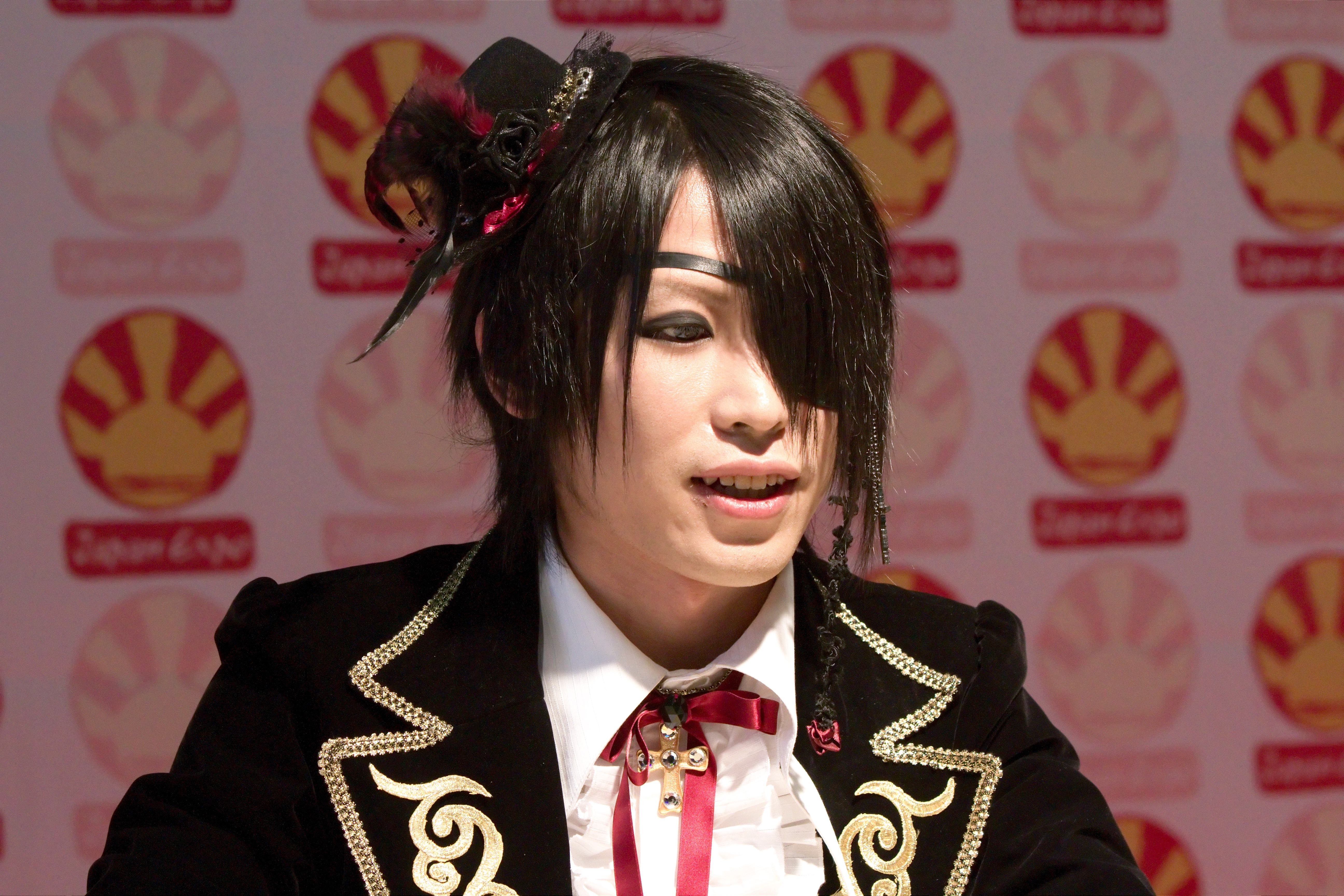 Autograph session with Kanon, from the band An Cafe, at Japan Expo 2010 (Paris, France).